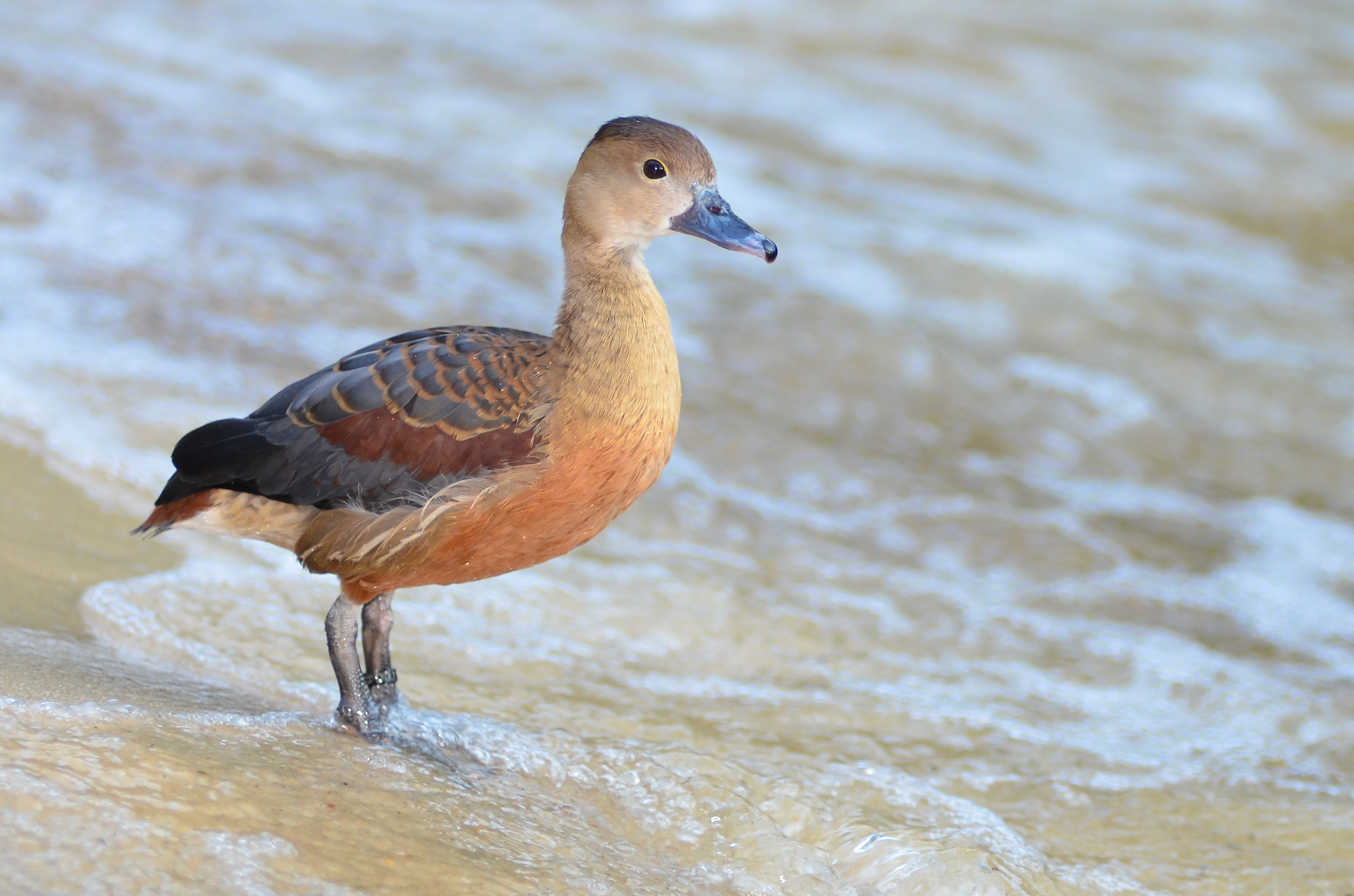 Lesser Whistling Duck (Dendrocygna javanica) at Weltvogelpark Walsrode (Walsrode Bird Park, Germany)